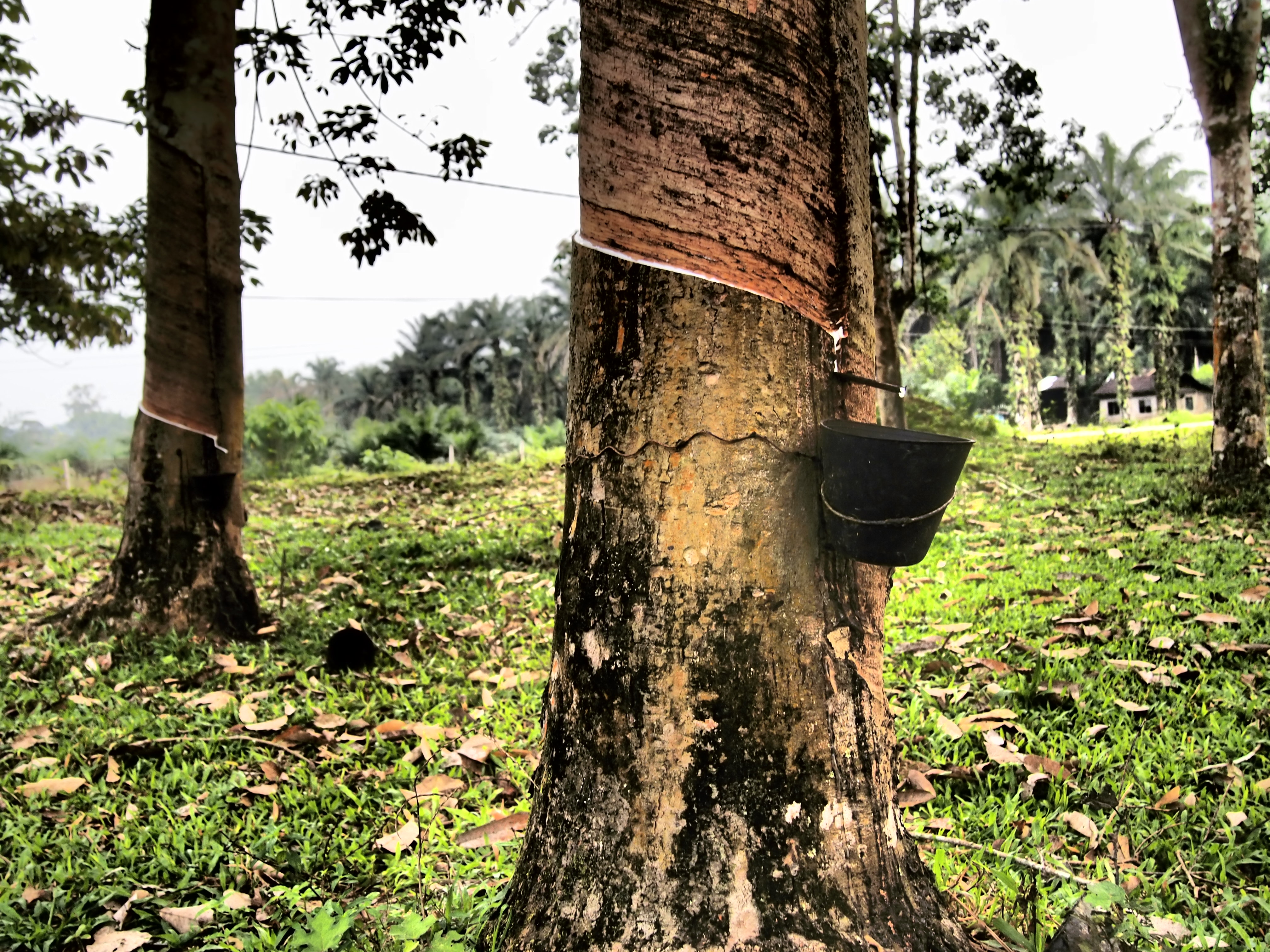 Rubber tree